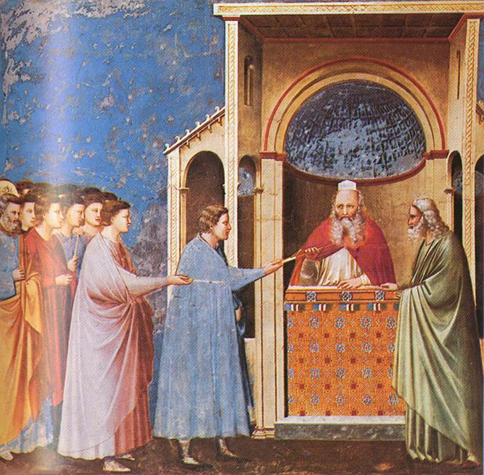 Life of the Virgin